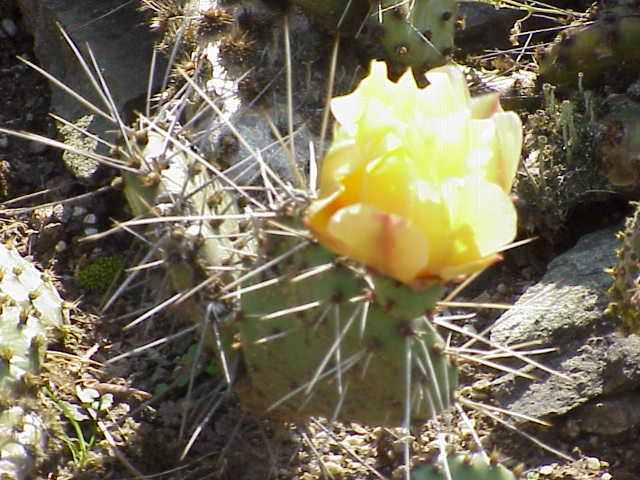 Species: Opuntia phaeacantha? Family: Cactaceae Image No. 2